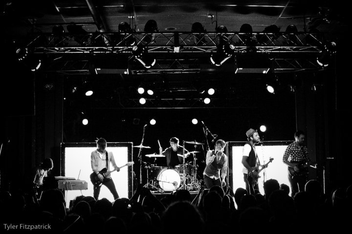 Oh, The Story! live at Recher Theatre in Towson, MD - April 30th, 2010